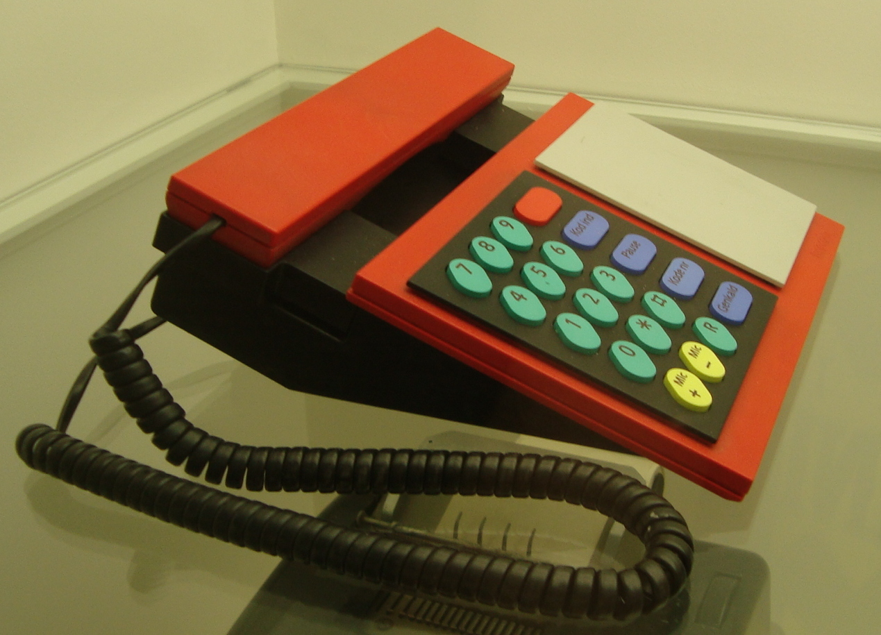 The Beocom 2000 telephone from Bang & Olufsen. Design by Gideon Loewy (1989)